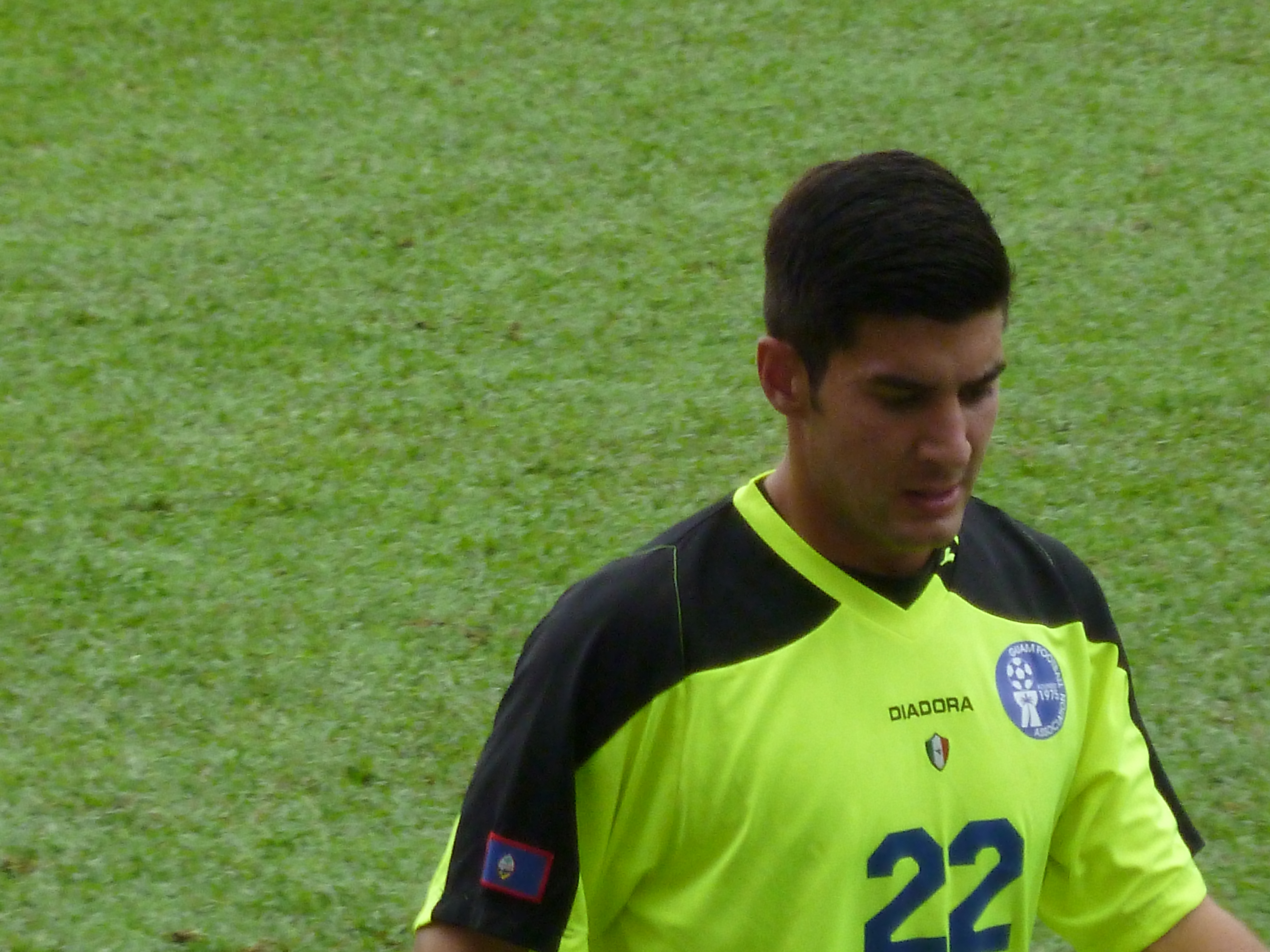 Dallas Jaye (01 Dec 2012, EAFF East Asian Cup 2013 Preliminary Competition Round 2, Guam vs Hong Kong, Mong Kok Stadium) 中文（香港）: 謝菲 (01 Dec 2012, 2013東亞盃外圍賽第二圈, 關島 vs 香港, 旺角大球場)